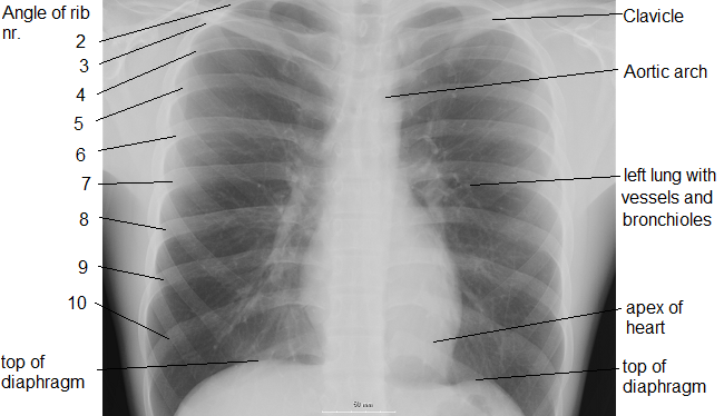 An X-ray of a human chest area, with some structures labeled. X-ray of chest, showing top of diaphragm.